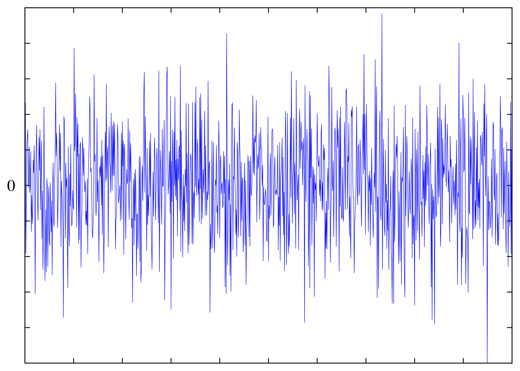 A plot of normally-distributed white noise